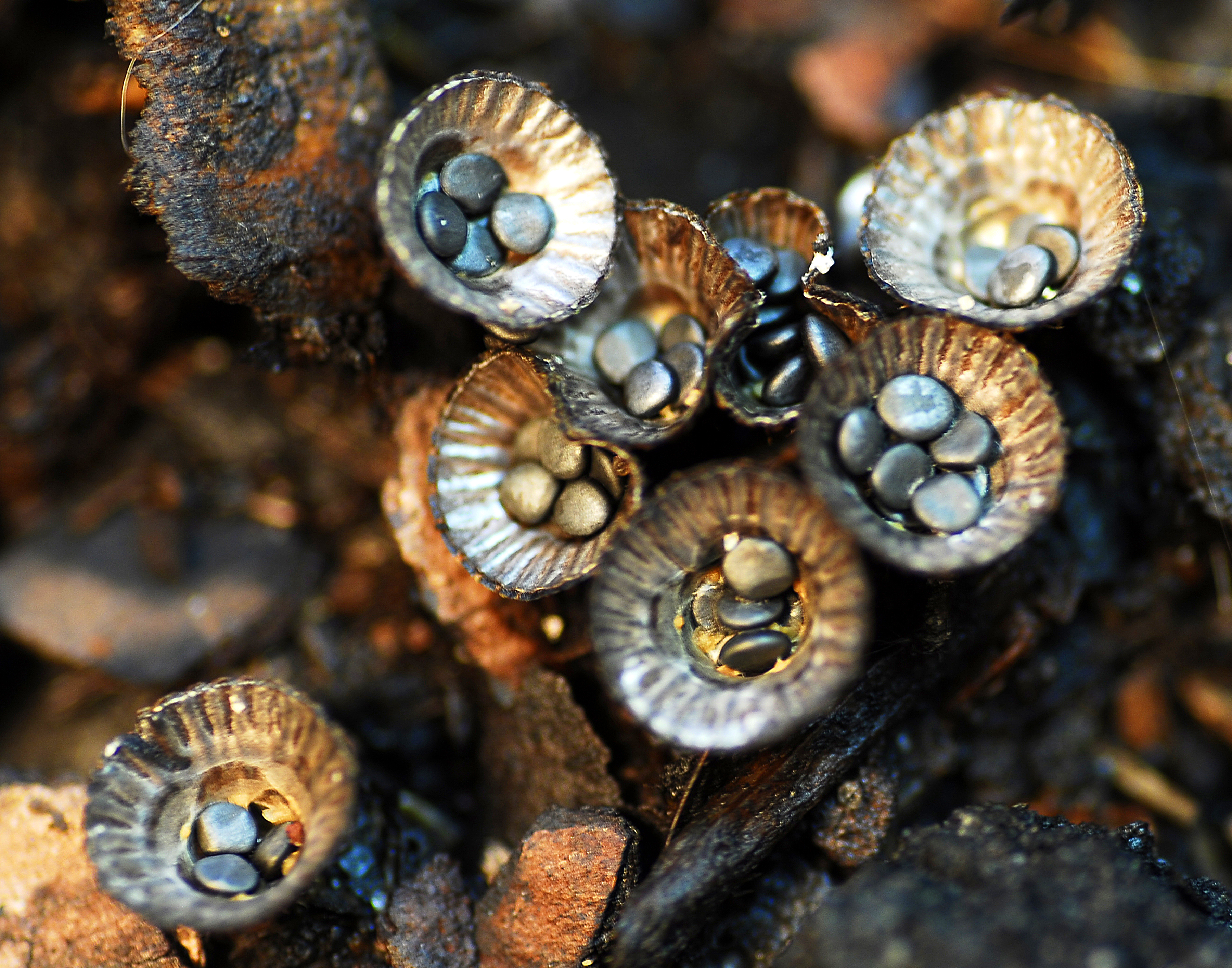 In Explore July 17th, 2008 #279 I found these growing around the base of a potted plant. They are very small. You can visit the following site to learn more about them if you are so inclined:)